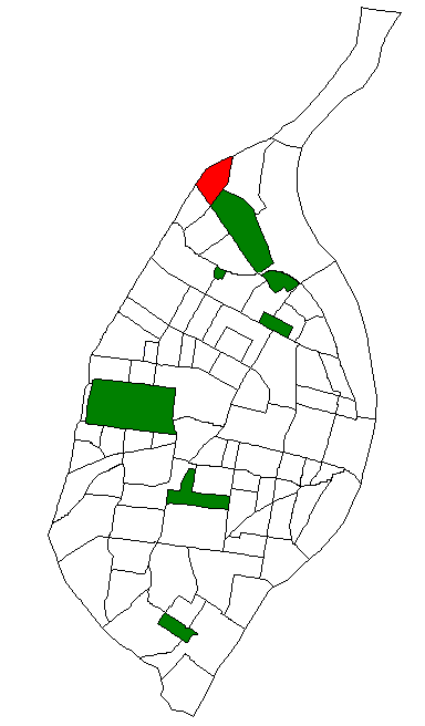 Map of St. Louis Neighborhood #73 (North Point)